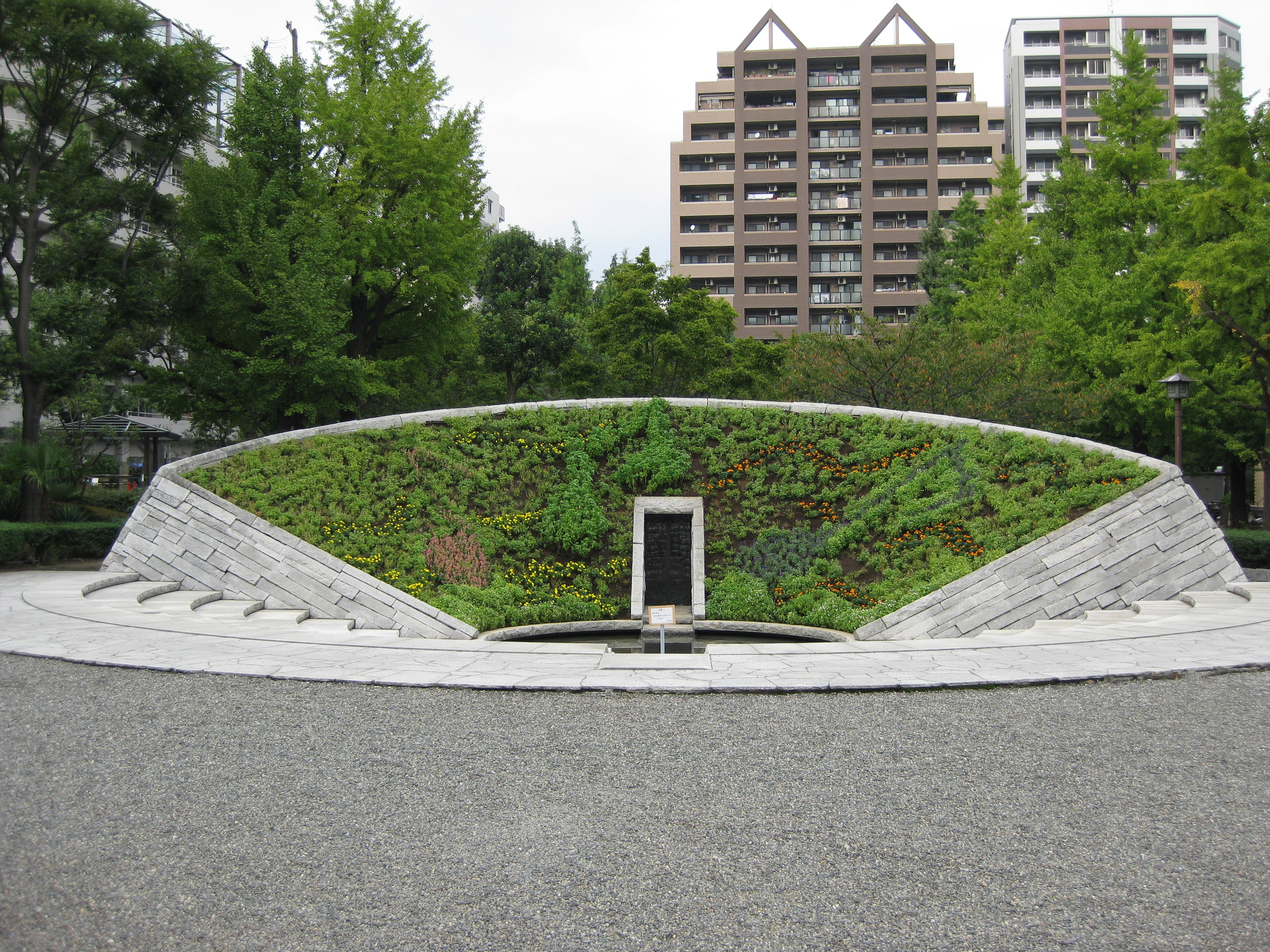 The Memorial to the Victims of the Tokyo Air Raids and the Pursuit of Peace in Yokoami Park, Tokyo. The memorial contains a list of the names of all the people killed in the raids during World War II